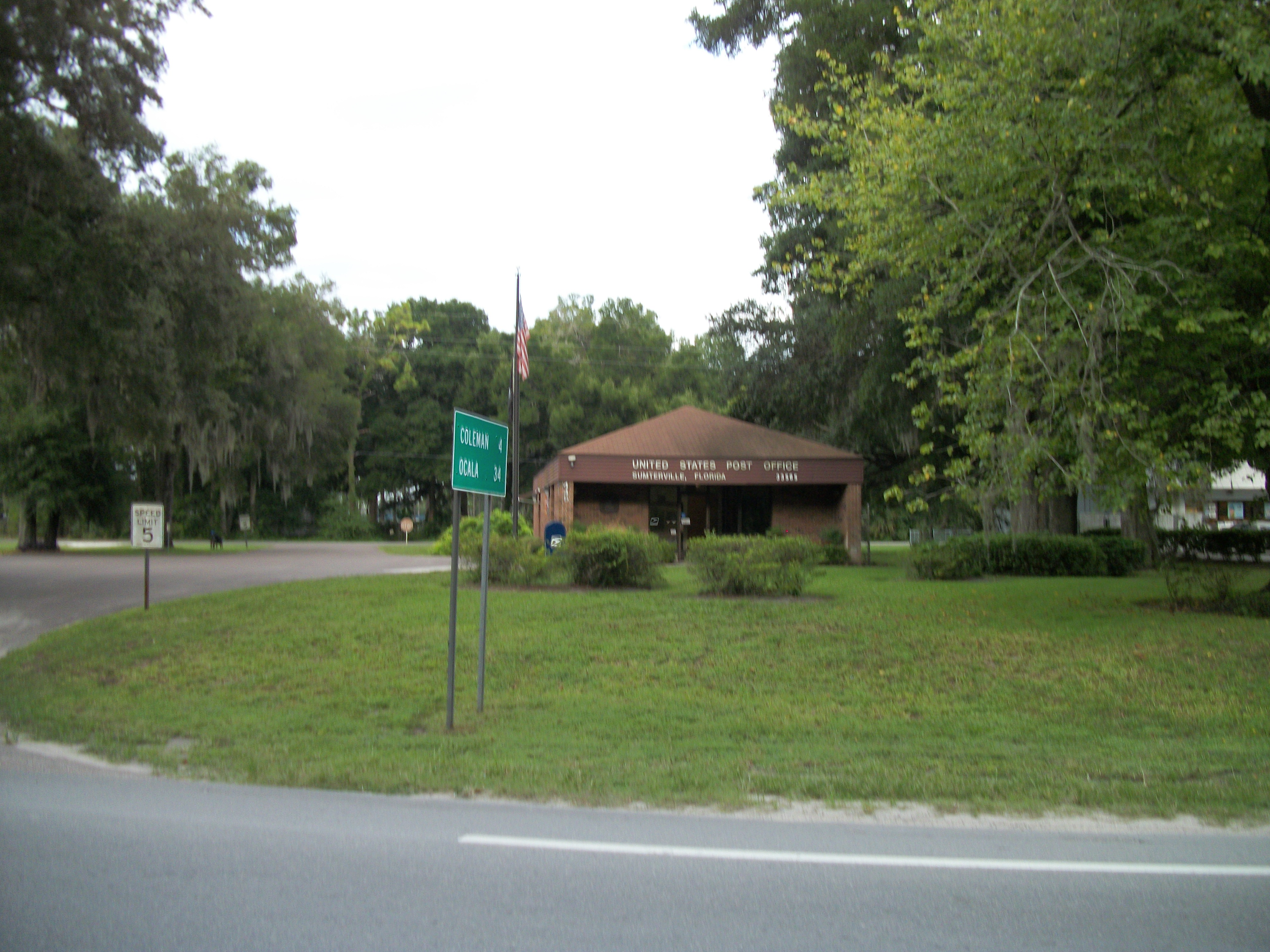 The Sumterville Post Office on the east side of U.S. Route 301/Sumter CR 470 in Sumterville, Florida.